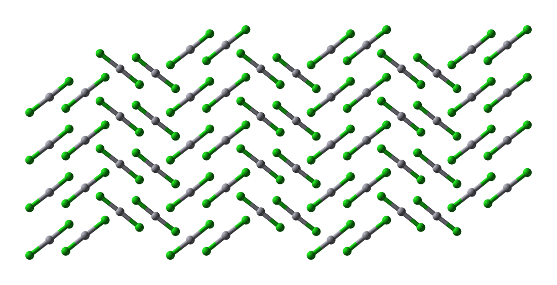 Ball-and-stick model of part of the crystal structure of mercury(II) chloride, HgCl2. X-ray diffraction data from Acta Cryst. (1980). B36, 2132-2135. Model constructed in CrystalMaker 8.1. Image generated in Accelrys DS Visualizer.